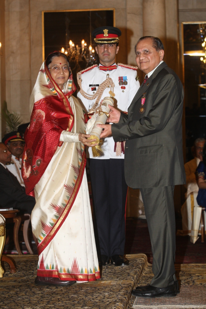 Dr. Ramdas Pai of Manipal University receiving the Padma Bhushan award from the Honourable President of India. Dated Mar 2011